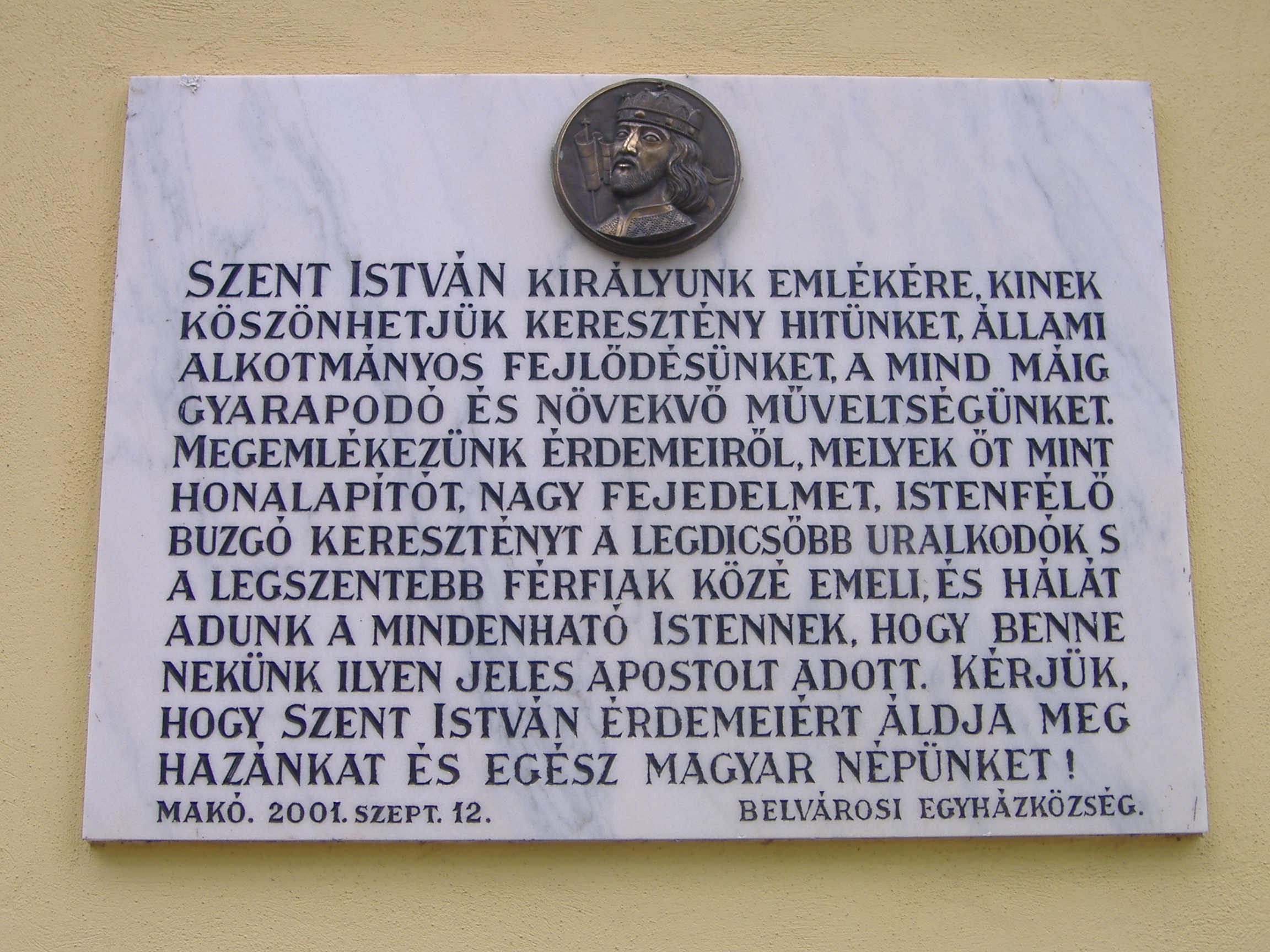 Memorial table on the wall of the Saint Stephen Parish Church in Makó, Hungary, commemorating to Saint Stephen, the first king and founder of the Hungarian State.